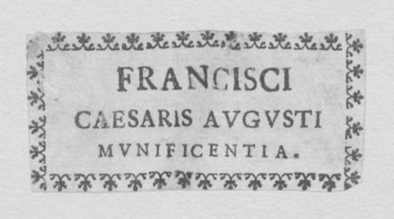 Ex libris of Francis I